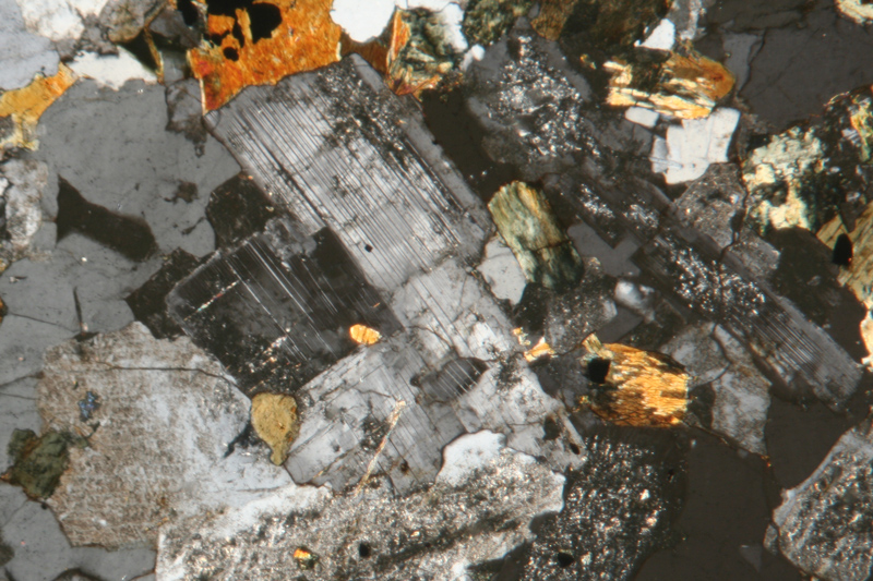 Siim Sepp, 2006 Igneous rock granodiorite. Photomicrograph with crossed polars. The width of the view is approximately 0,25 cm. Main minerals are plagioclase, hornblende, quartz and biotite.